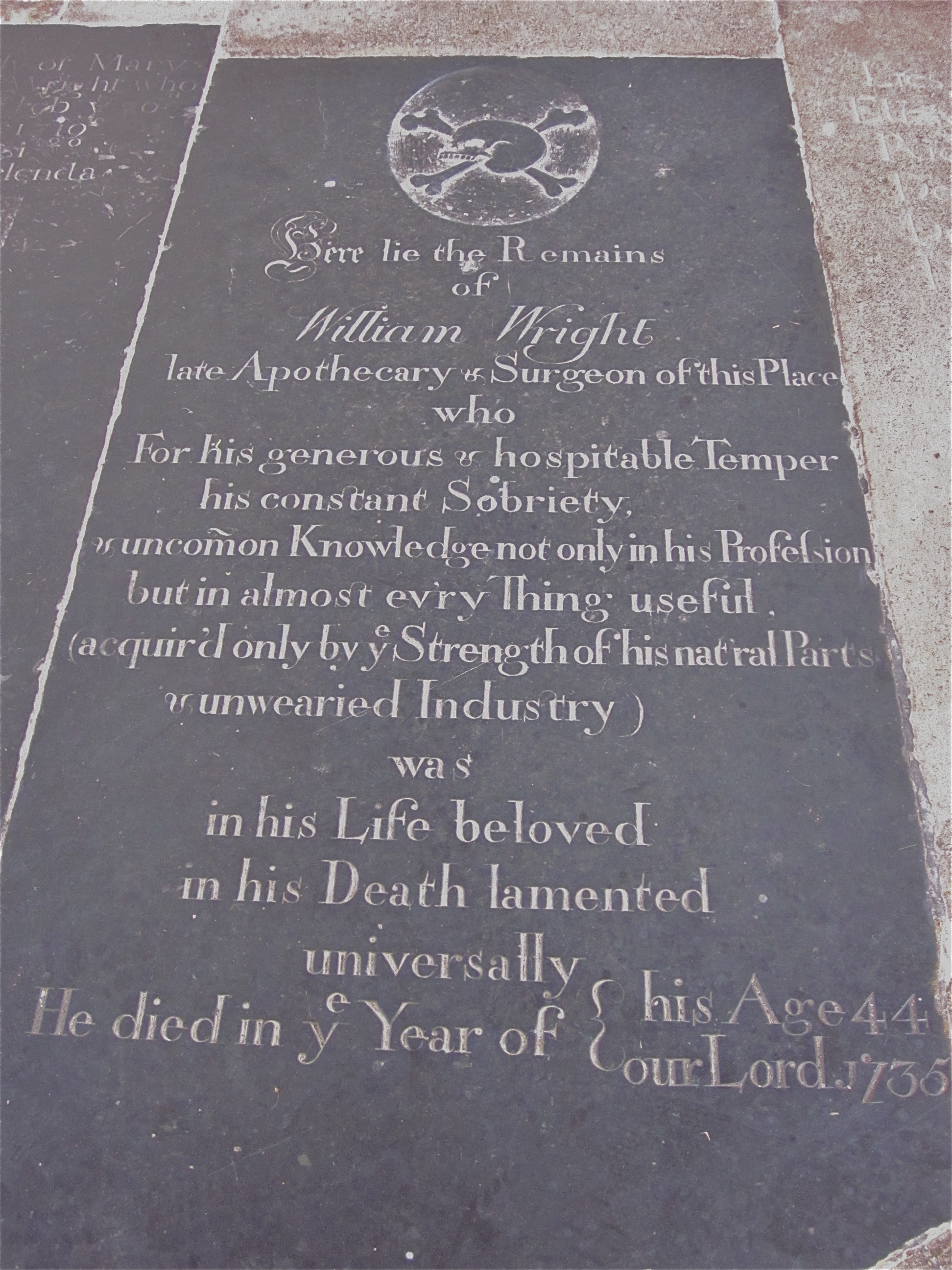 Black marble ledger slab in Holy Trinity Church, Tattershall, Lincolnshire. William Wright, Surgeon and Apothecary who died in 1735 aged 44 is buried next to his wife Mary. Both slabs have a skull and crossbones motif, possibly appropriate for a surgeon.